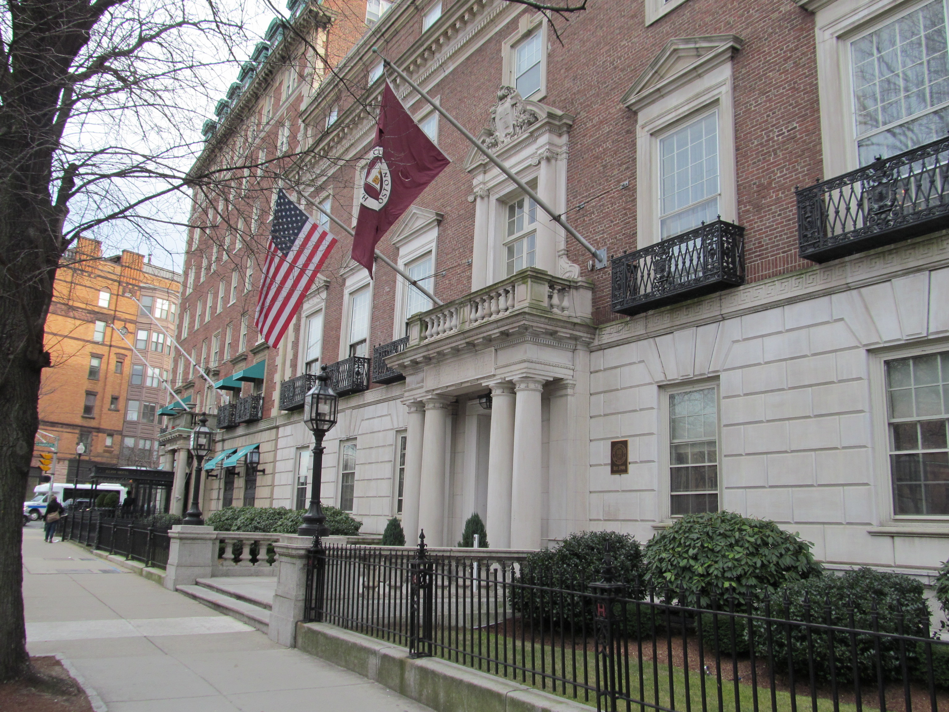 Main Clubhouse, Harvard Club of Boston Massachusetts